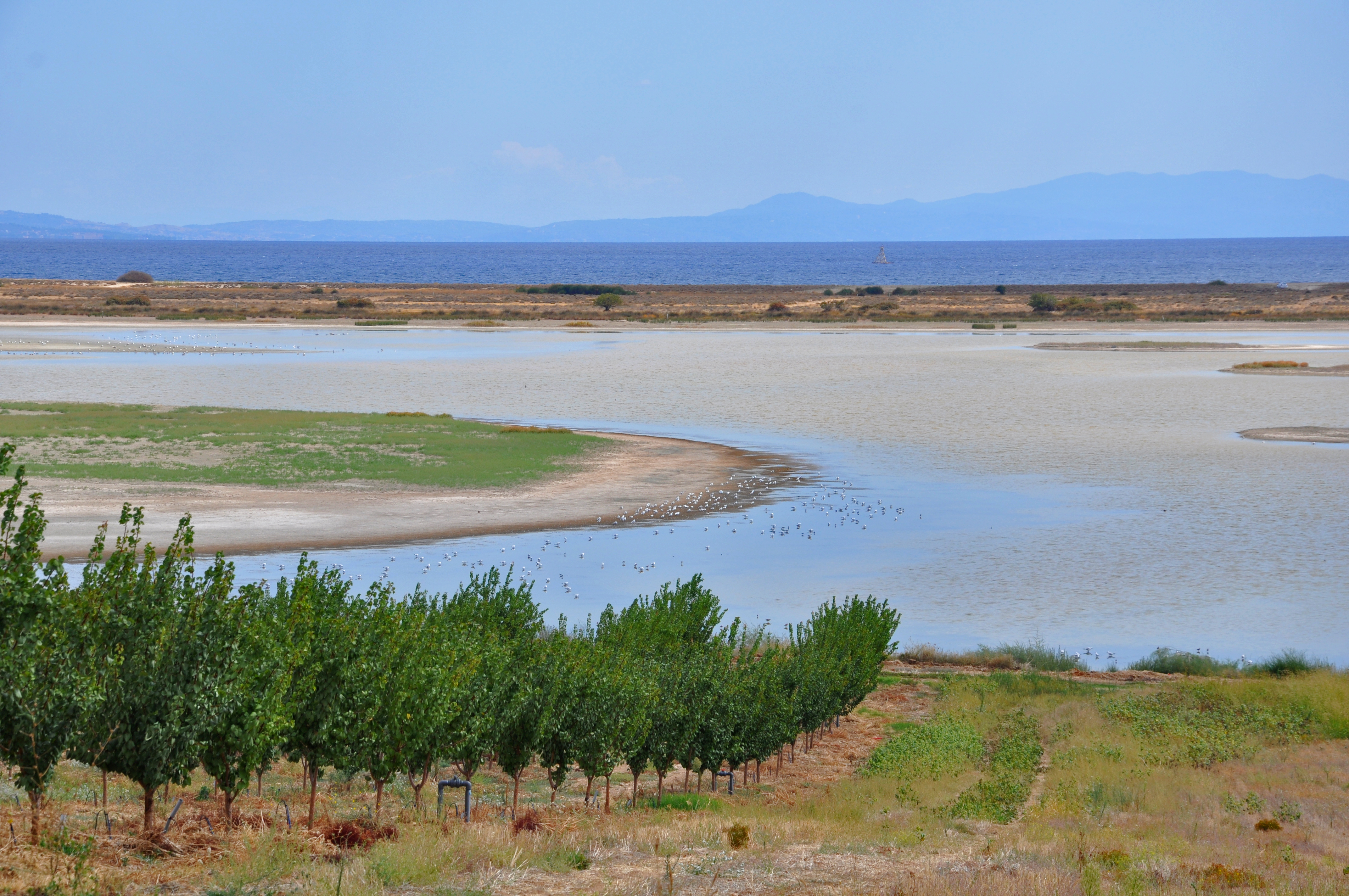 agios mamas-wetlands-natura 2000 This is a photography of Natura 2000 protected area with ID GR1270004